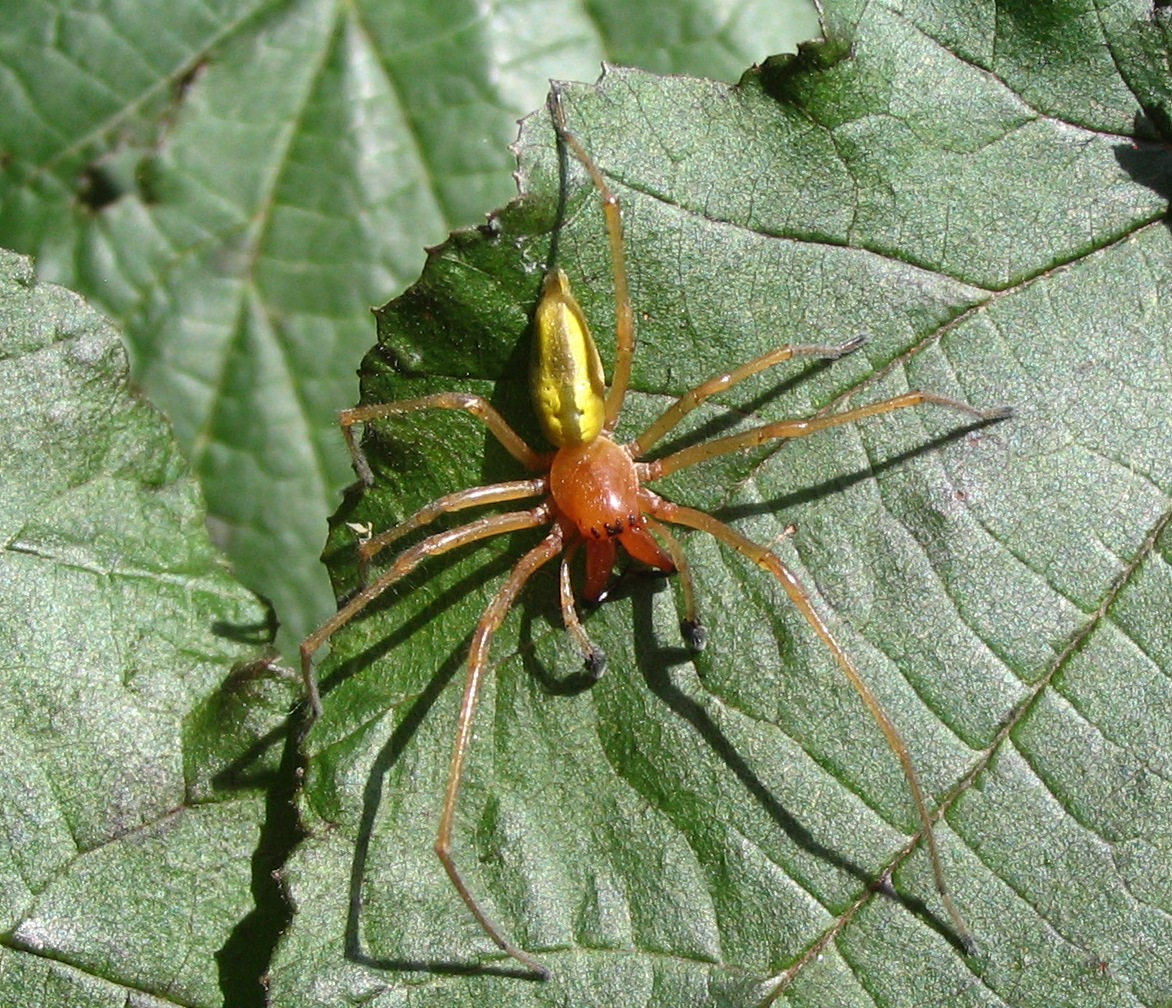 Cheiracanthium punctorium (male)